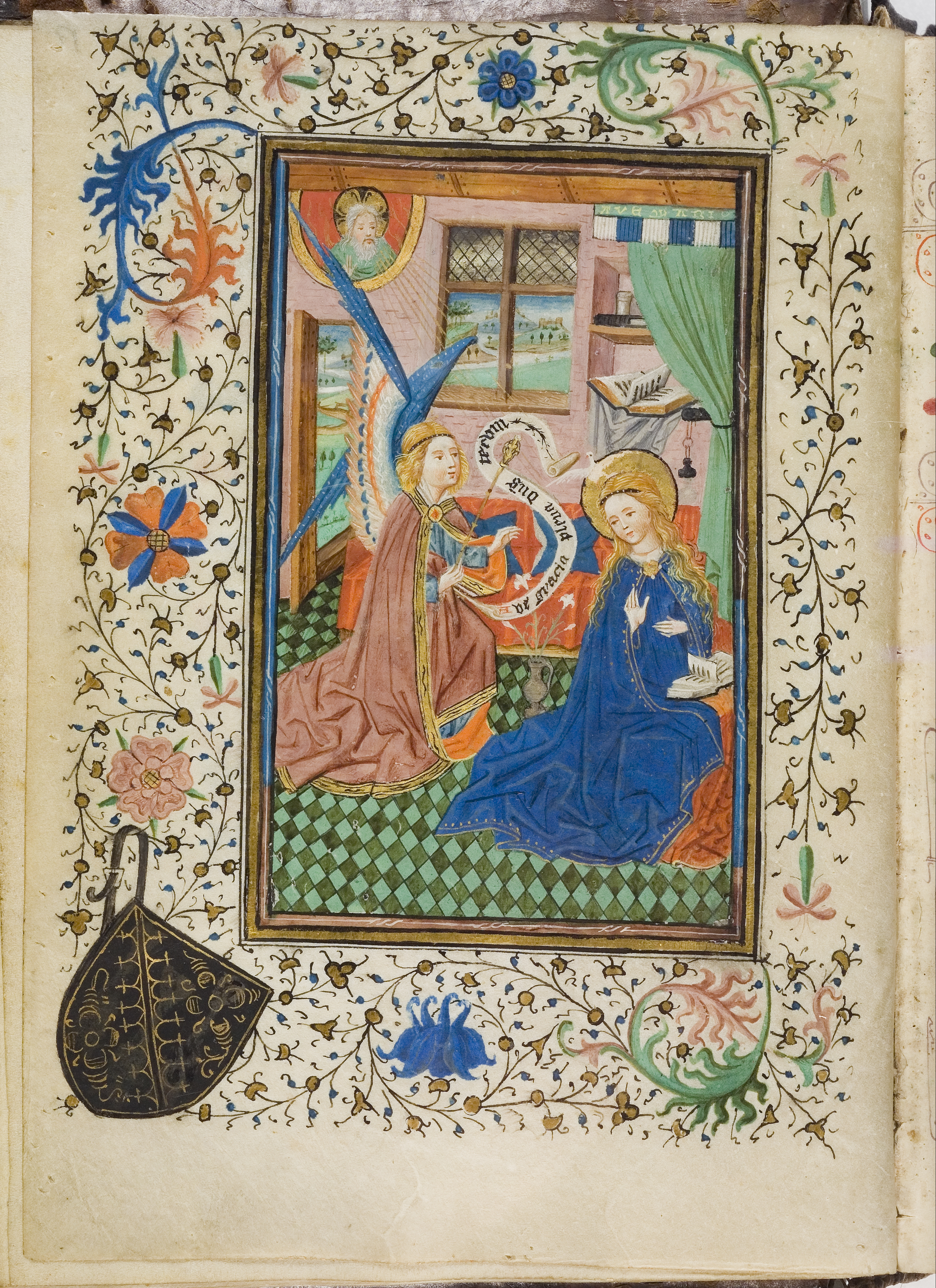 Example of Master of Gijsbrecht van Brederode: Bout Psalter-Hours, fol. 17v, Annunciation